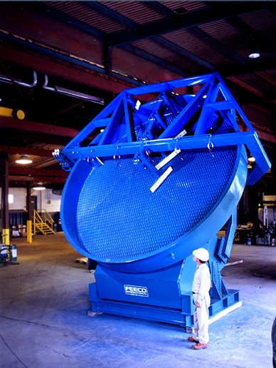 This image shows a disc pelletizer engineered and manufactured by FEECO International: Green Bay, WI.